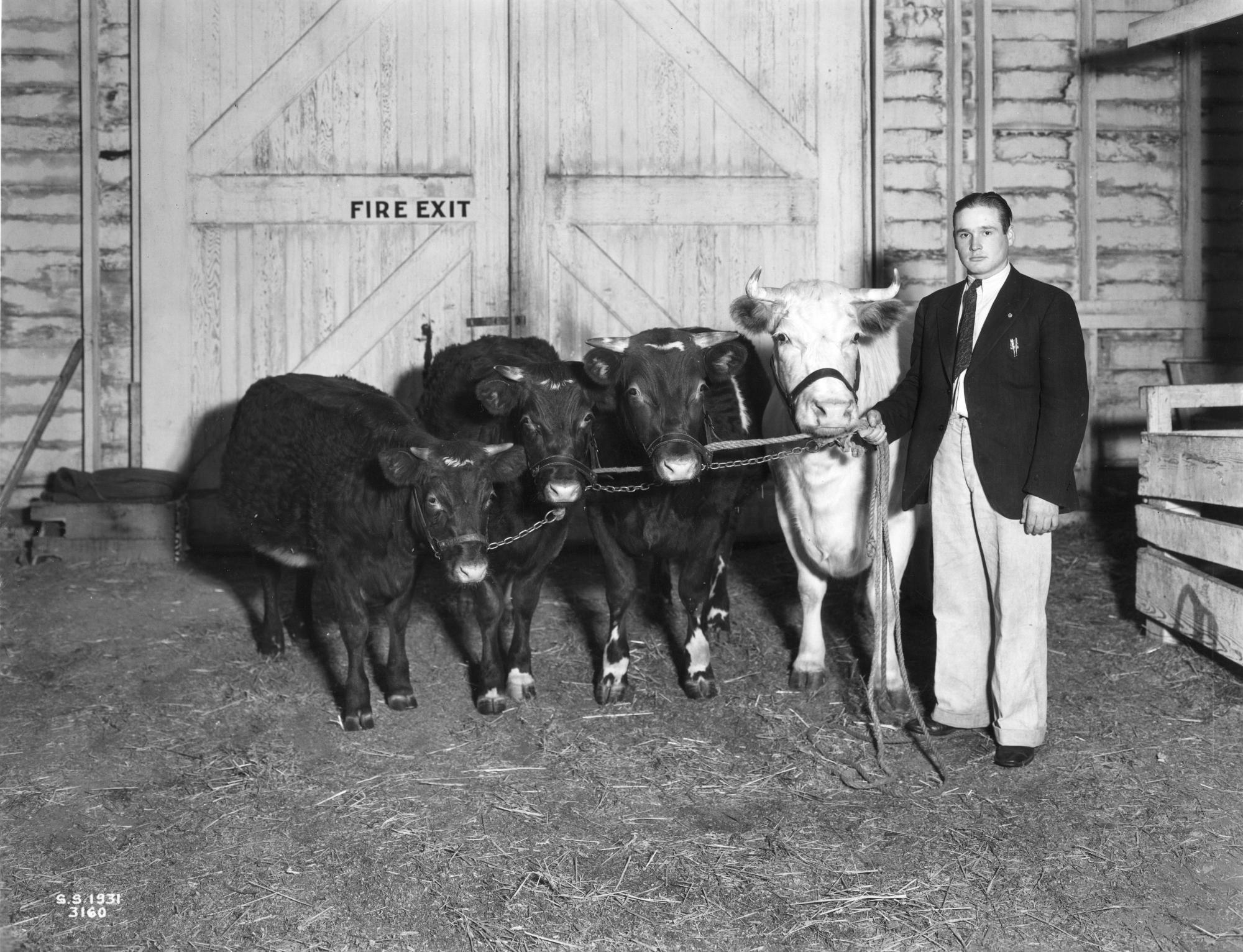 Original Collection: 4-H Photograph Collection (P146) Item Number: P146:0096 You can find this image by searching for the item number by clicking here. Want more? You can find more digital resources online. We're happy for you to share this digital image within the spirit of The Commons; however, certain restrictions on high quality reproductions of the original physical version may apply. To read more about what “no known restrictions” means, please visit the Special Collections & Archives website, or contact staff at the OSU Special Collections & Archives Research Center for details.